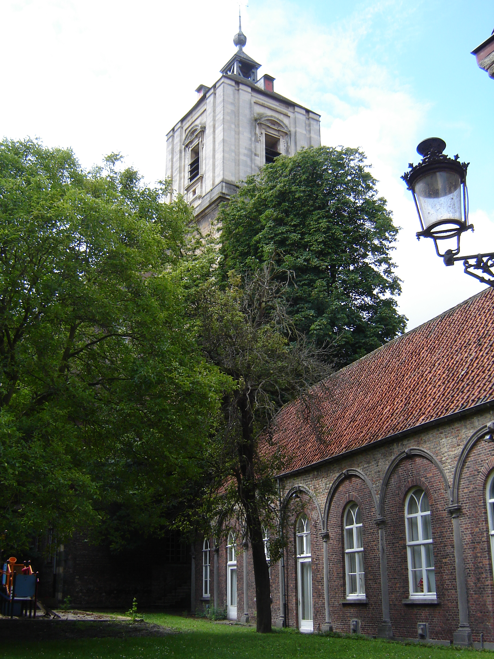 Church of Saint Walpurga in Brugge. Brugge, West Flanders, Belgium.